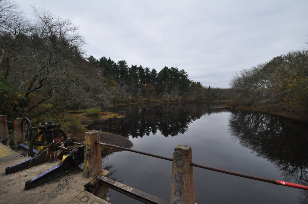 Horseshoe Pond at the Conant's Hill conservation area in Wareham, Massachusetts. In addition to 19th century industrial works, this area has prehistoric archeological sites.